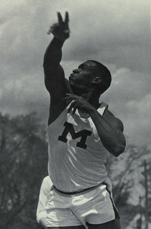 Photograph of Bill Yearby